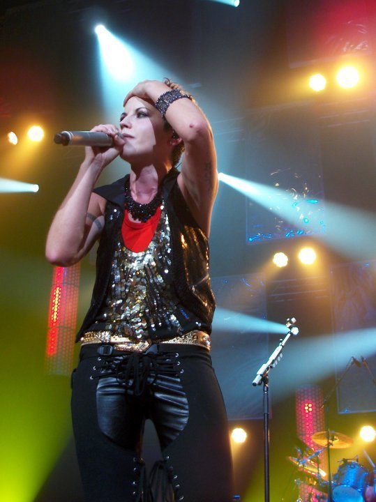 Dolores O'Riordan \ Cranberries Reunion tour